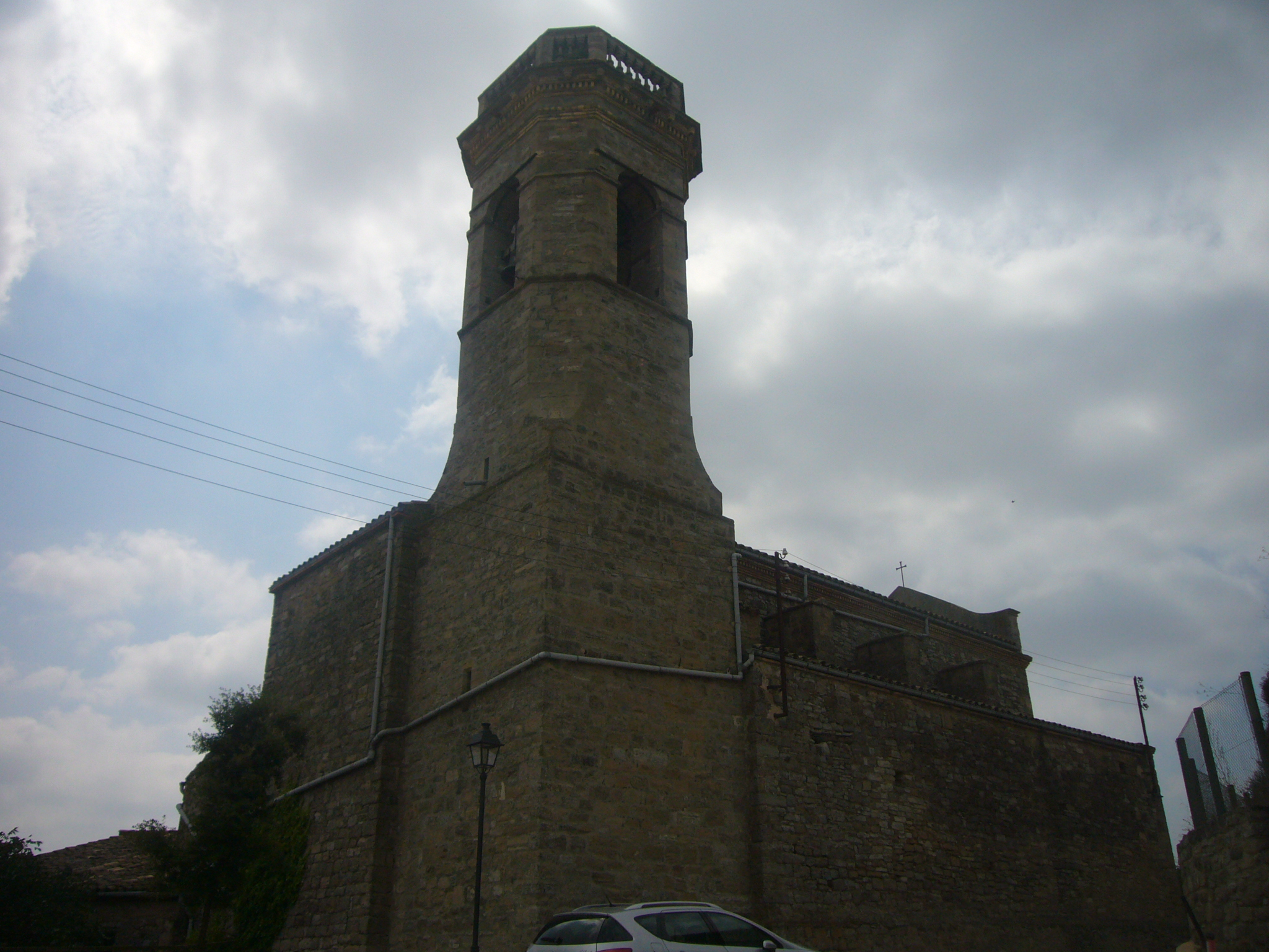 Church of Sant Llorenç (Argençola)